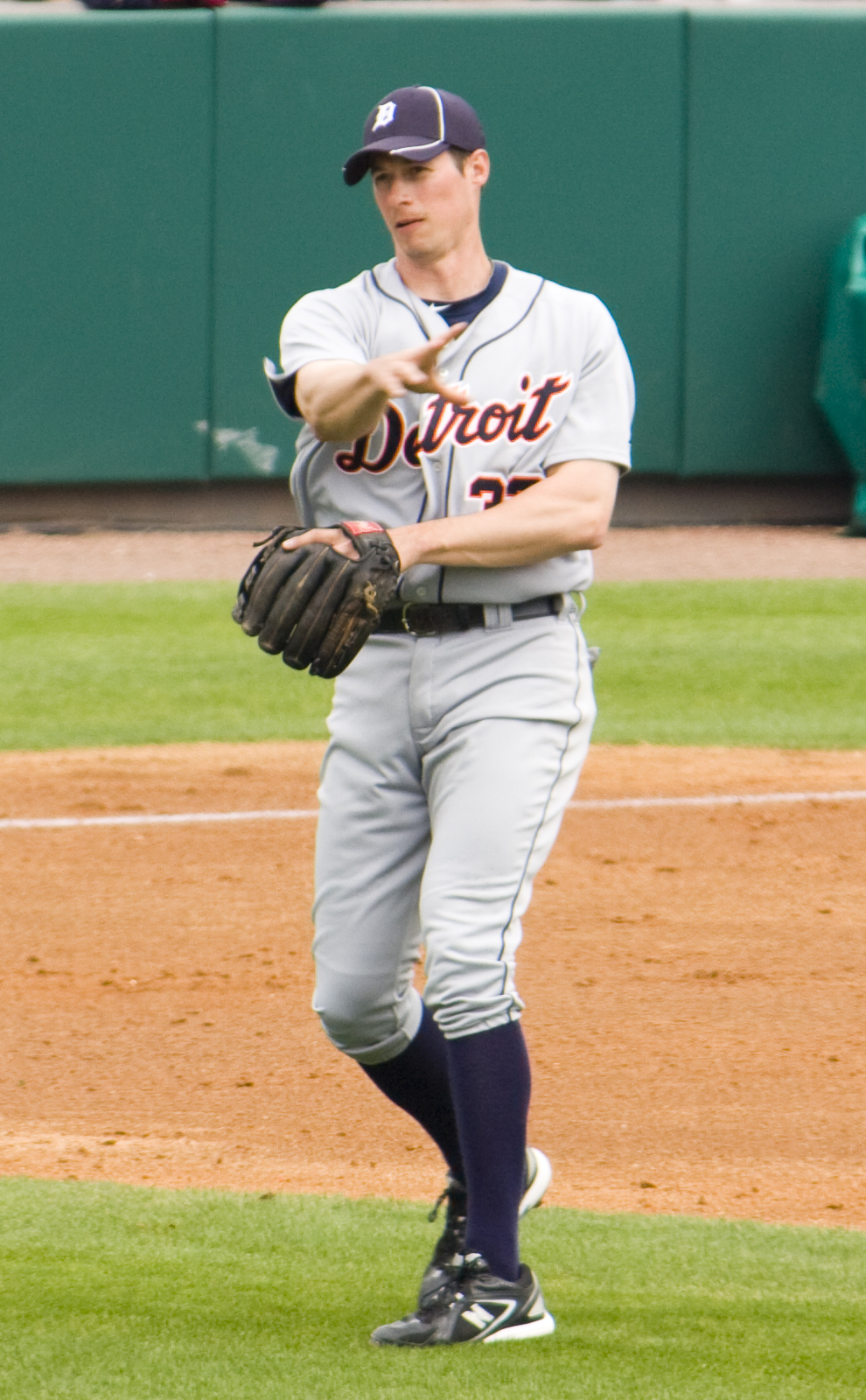 Don Kelly